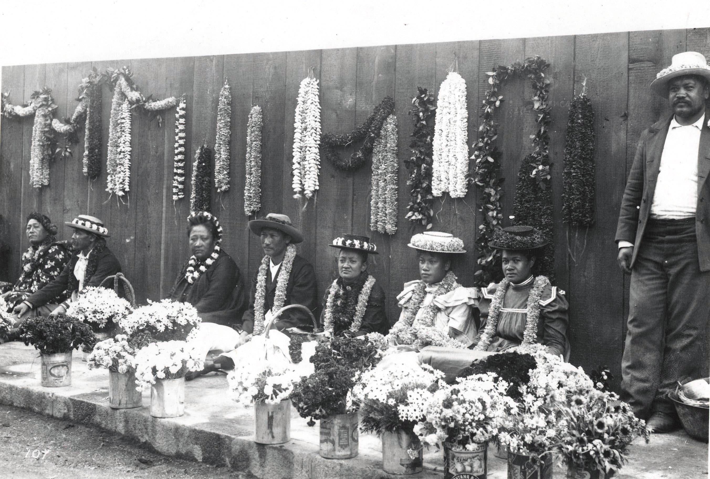 Native Hawaiian lei sellers in 1901.